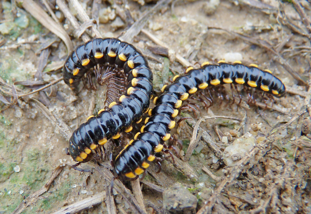 Anoplodesmus anthracinus males